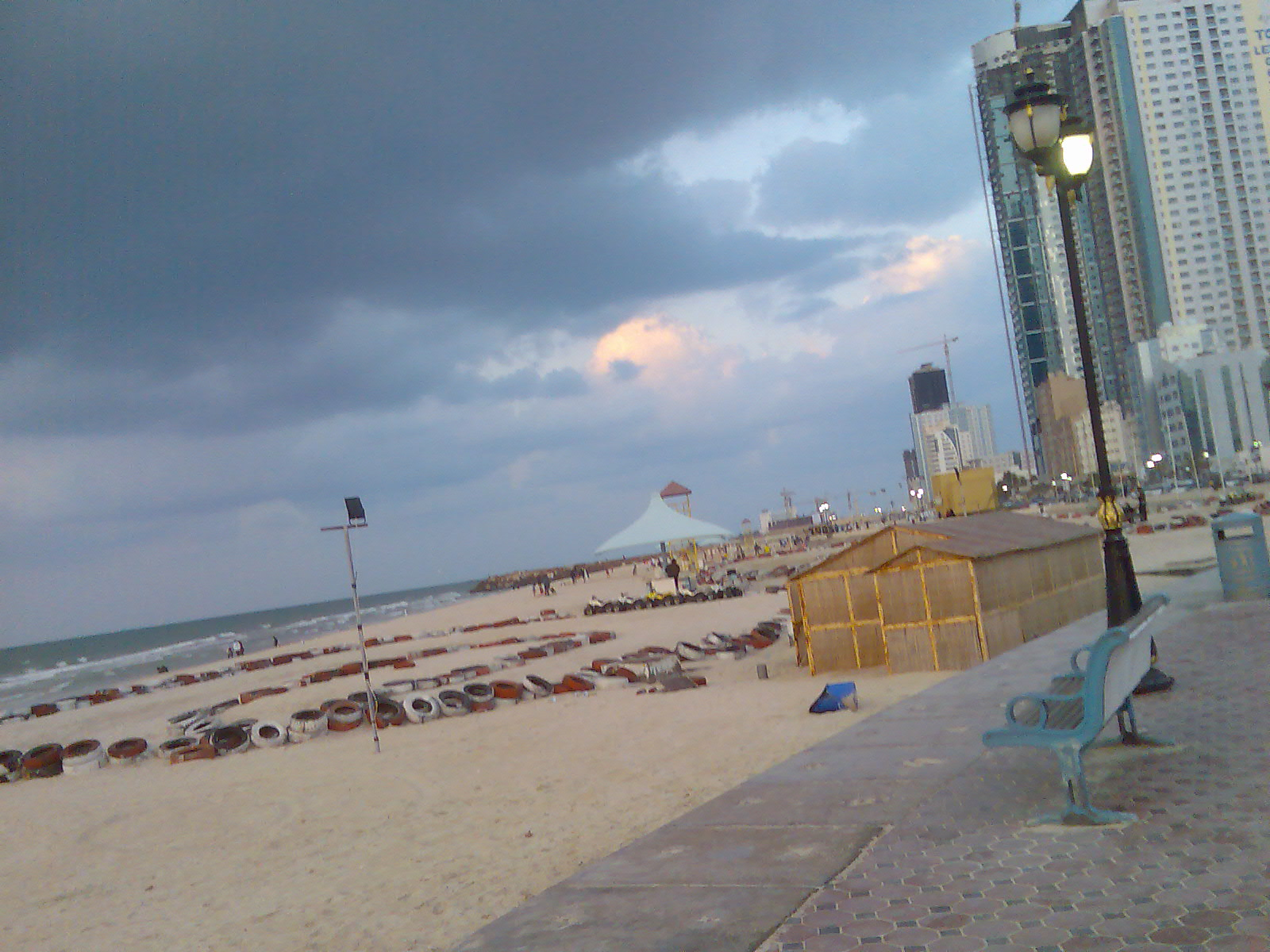 Ajman beach